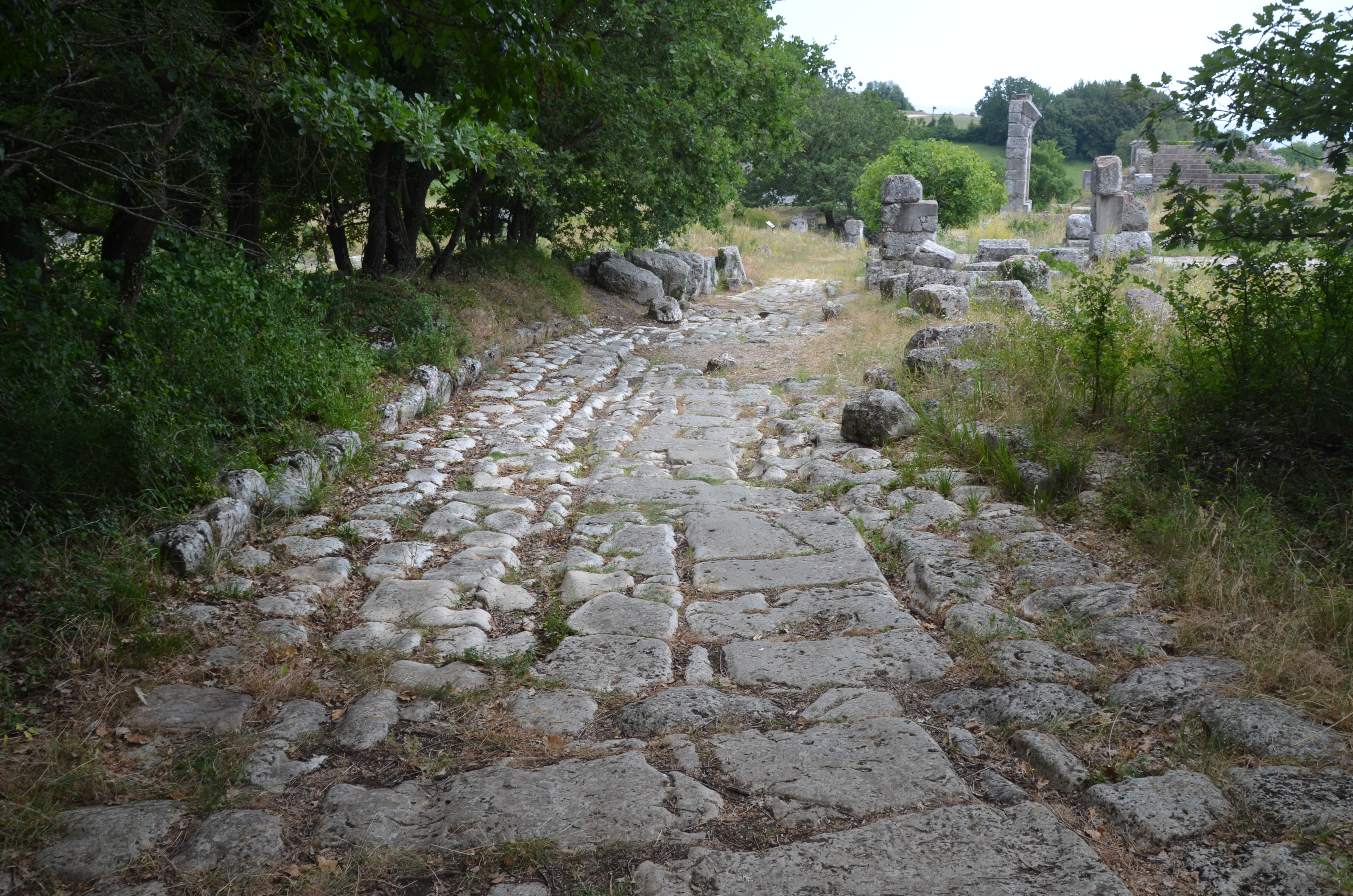 Carsulae, Italy